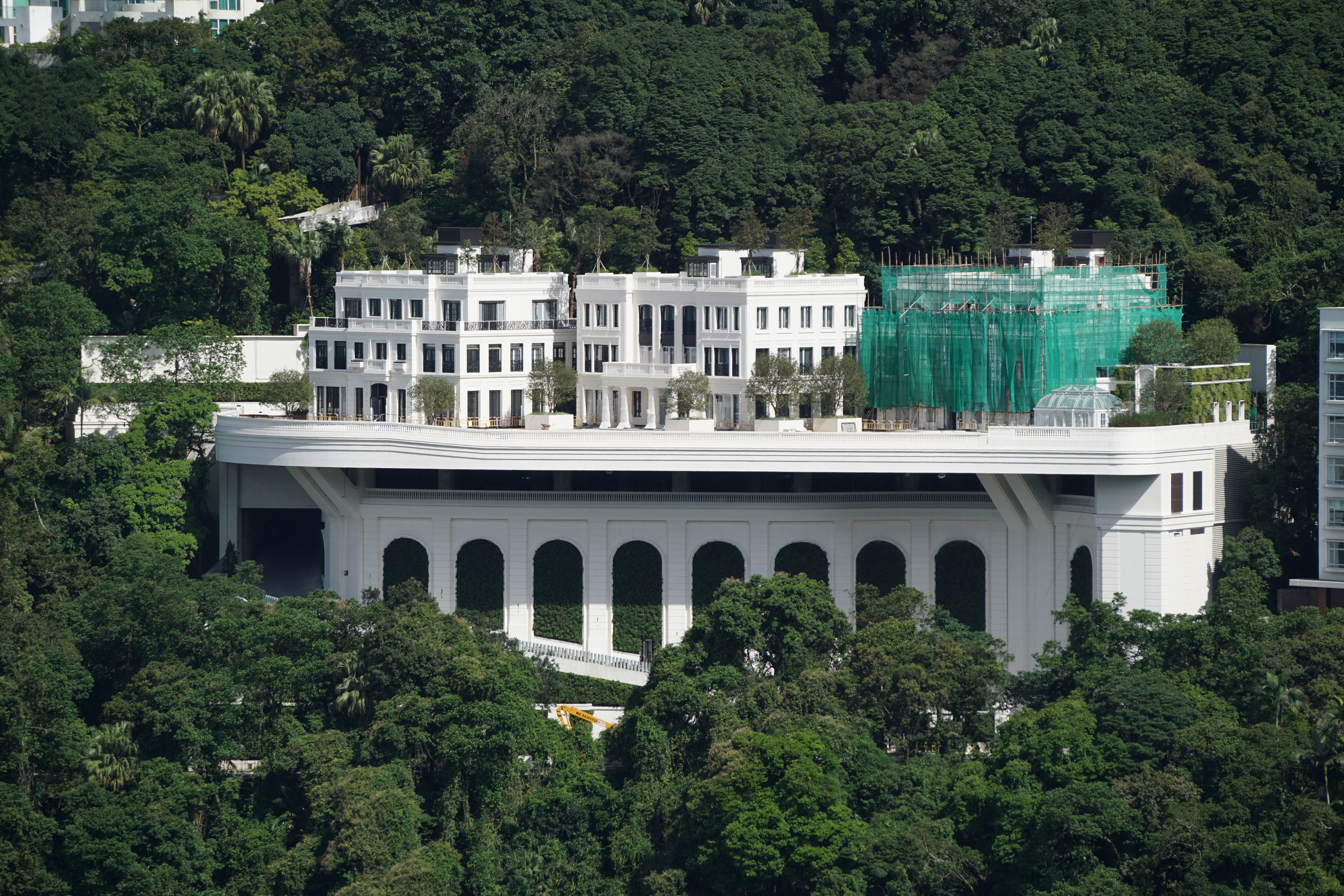 35 Barker Road in The Peak, Hong Kong.